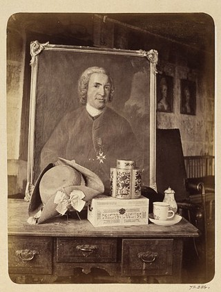 "This photograph was taken at the home of botanist Carl von Linné (known as Linnaeus) at Hammarby near Uppsala, Sweden. Linnaeus devised the first consistent binomial classification system for plants, which is still used, in a modified form, today. Schenson's practice as a painter (as well as a photographer) is evident here. She used a painting by Johan Henrik Scheffel (dated 1755, and still in Hammarby) as part of a lively composition. She placed objects of the botanist's daily life, such as his hat, teacup, teapot, and tea caddy, with the painting. His walking stick leans against a chair, as if its owner might return at any moment. Schenson also indicates Linnaeus' place in an ancestral portrait gallery, positioning Scheffel's painting so that the sitter's head appears in line with the two female portraits (his wife and his mother, perhaps) on the wall in the background."